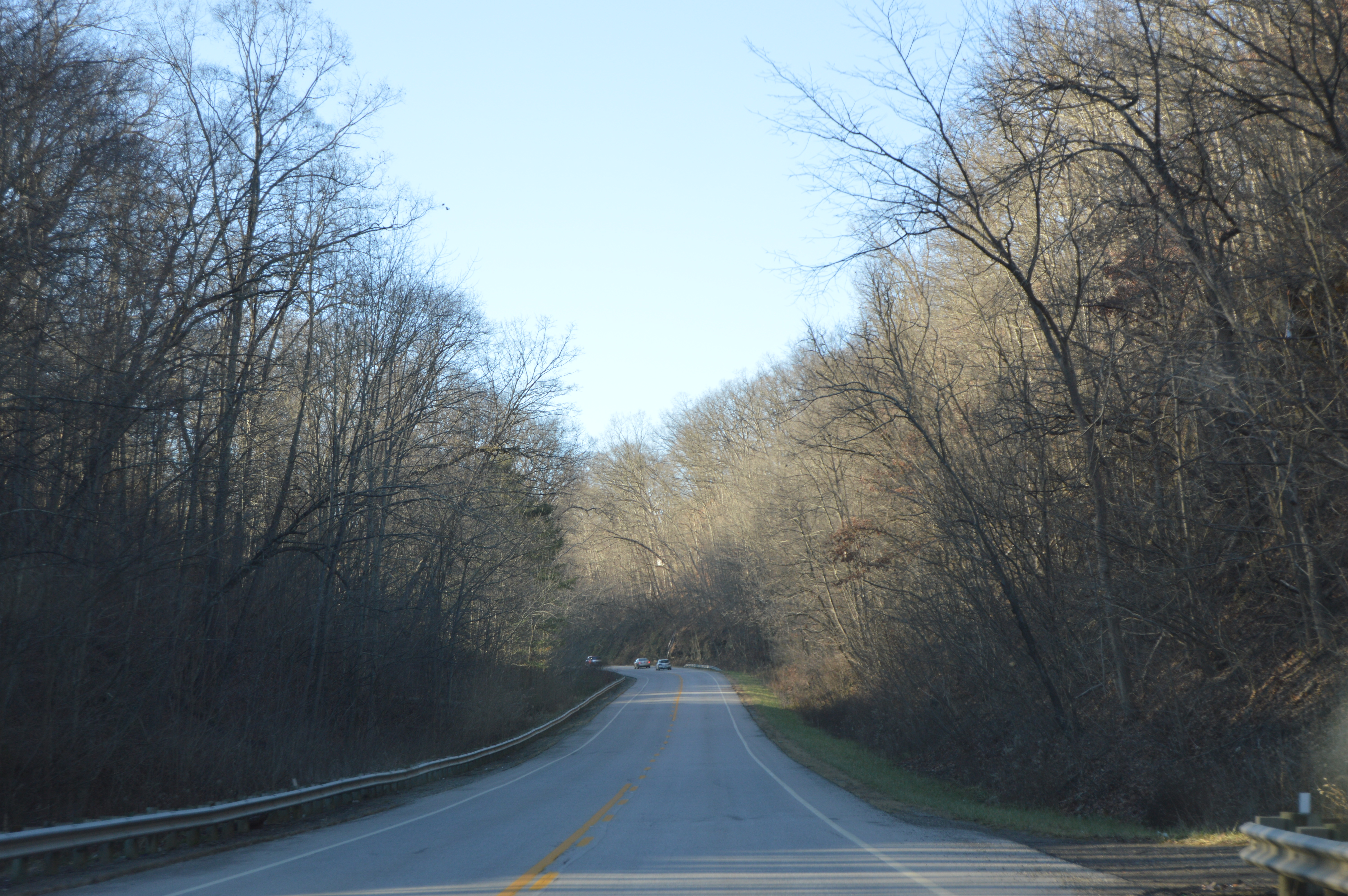 Westbound State Route 78 approaching Woodsfield in Center Township, Monroe County, Ohio, United States.